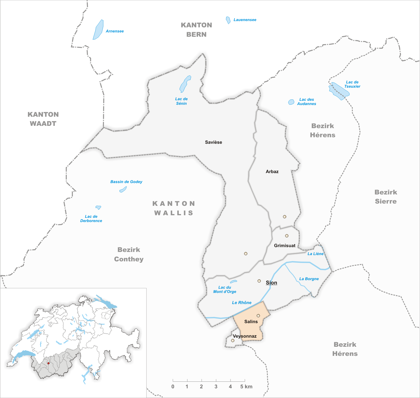 Municipality Salins